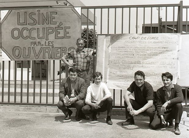 Five workers outside their factory in the south of France, with a sign reading "Factory Occupied by the Workers" (translation) and a list of their demands affixed to a fence or gate, June 1968 Other information Photo by George Garrigues.